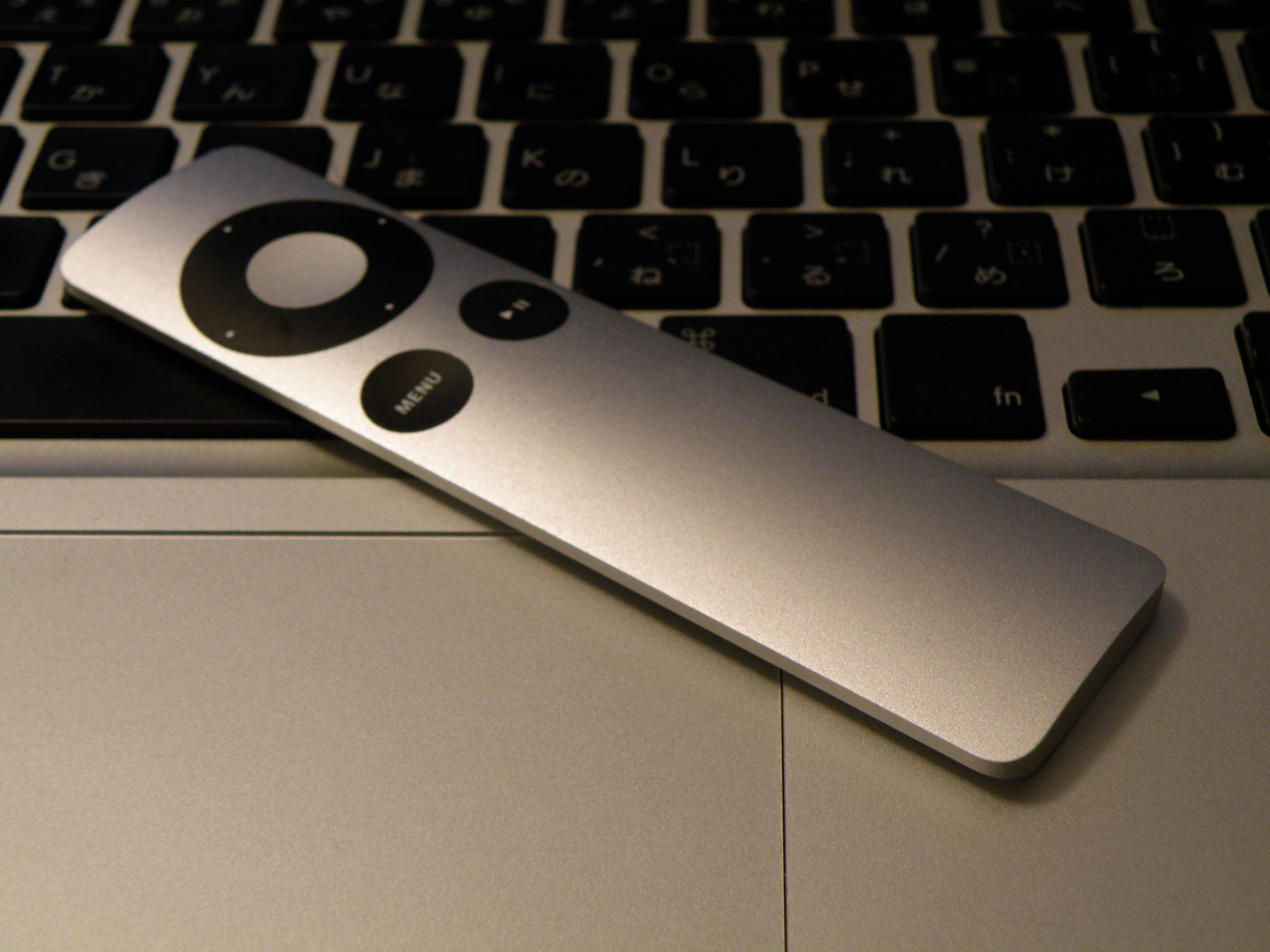 An October 2009 Apple Remote